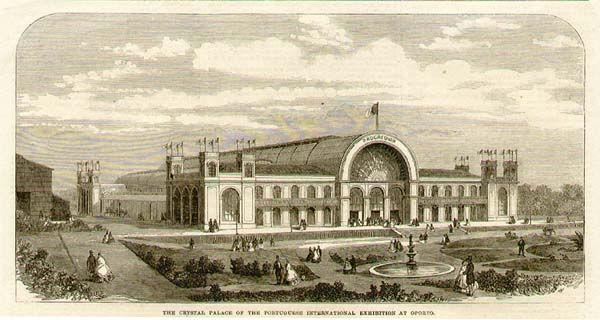 A woodcut engraving which was published in "The Illustrated London News" 18th November, 1865.